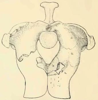 Illustration of the anterior view of the pelvis of Acompsosaurus wingatensis from "New or little known reptiles from the Trias of Arizona and New Mexico with notes from the fossil bearing horizons near Wingate, New Mexico" by Maurice Mehl, W.C. Toepelmann, and G.M. Schwartz (University of Oklahoma Bulletin 103 :1-44).